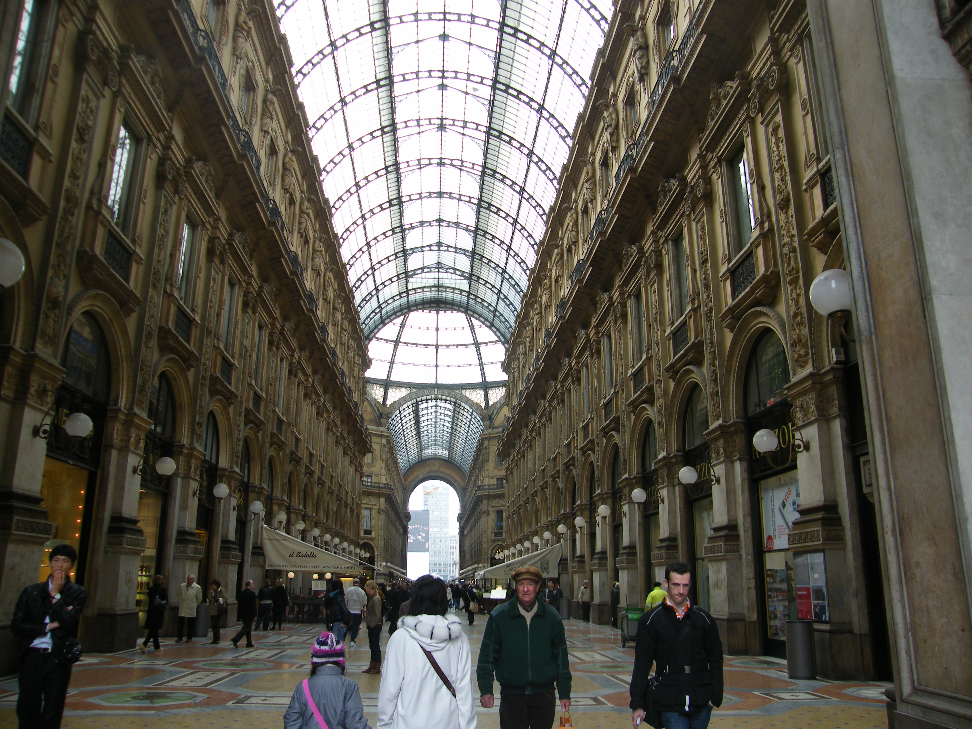 Galleria Vittorio Emanuele II (Milan)